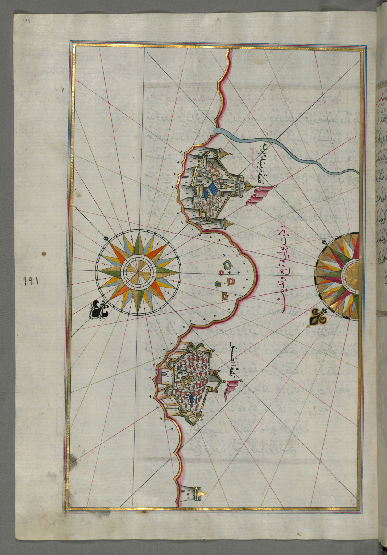 This folio from Walters manuscript W.658 contains a map of the towns Vasto and Termoli on the Italian coast.